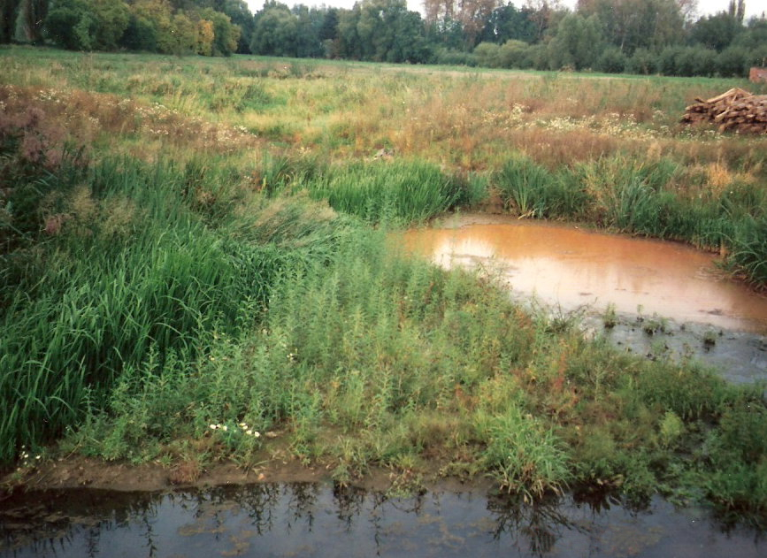 Salix viminalis. Half year old plants on new soil. The plants have a height between 0.3 and 0.5 m. Brunswick/Germany